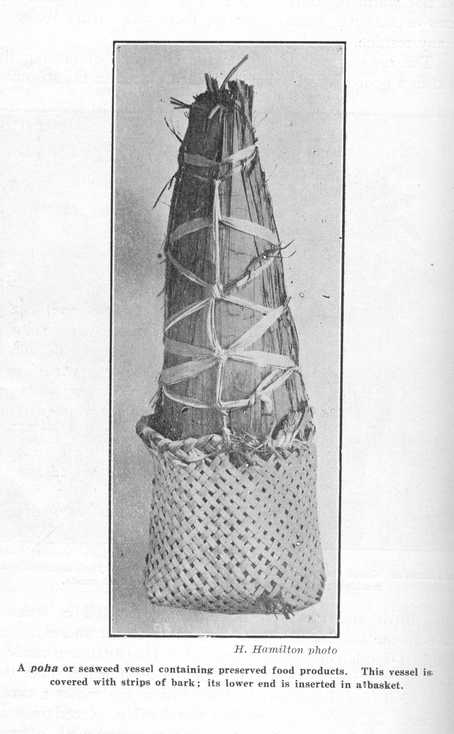 A pōhā or seaweed vessel containing preserved food products. This vessel is covered with strips of bark; its lower end is inserted in a basket.